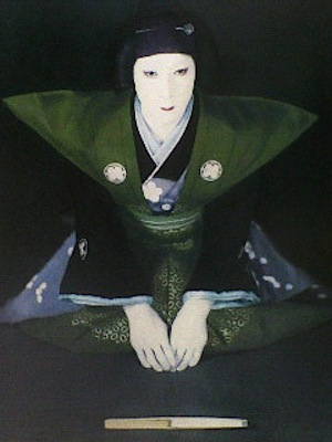 Utaemon Nakamura VI (1917–2001) at his succession as Utaemon VI, April 1951 Tokyo Kabuki-za